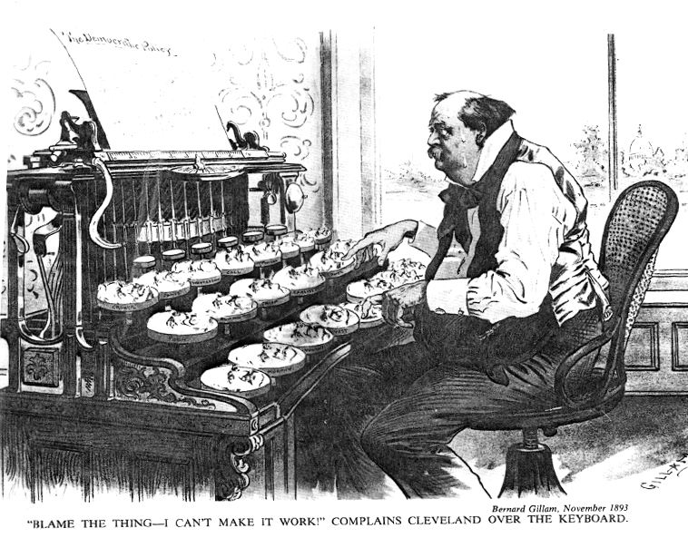 1893 US cartoon depicting president Grover Cleveland trying to manipulate the Democratic Party like a typewriter.